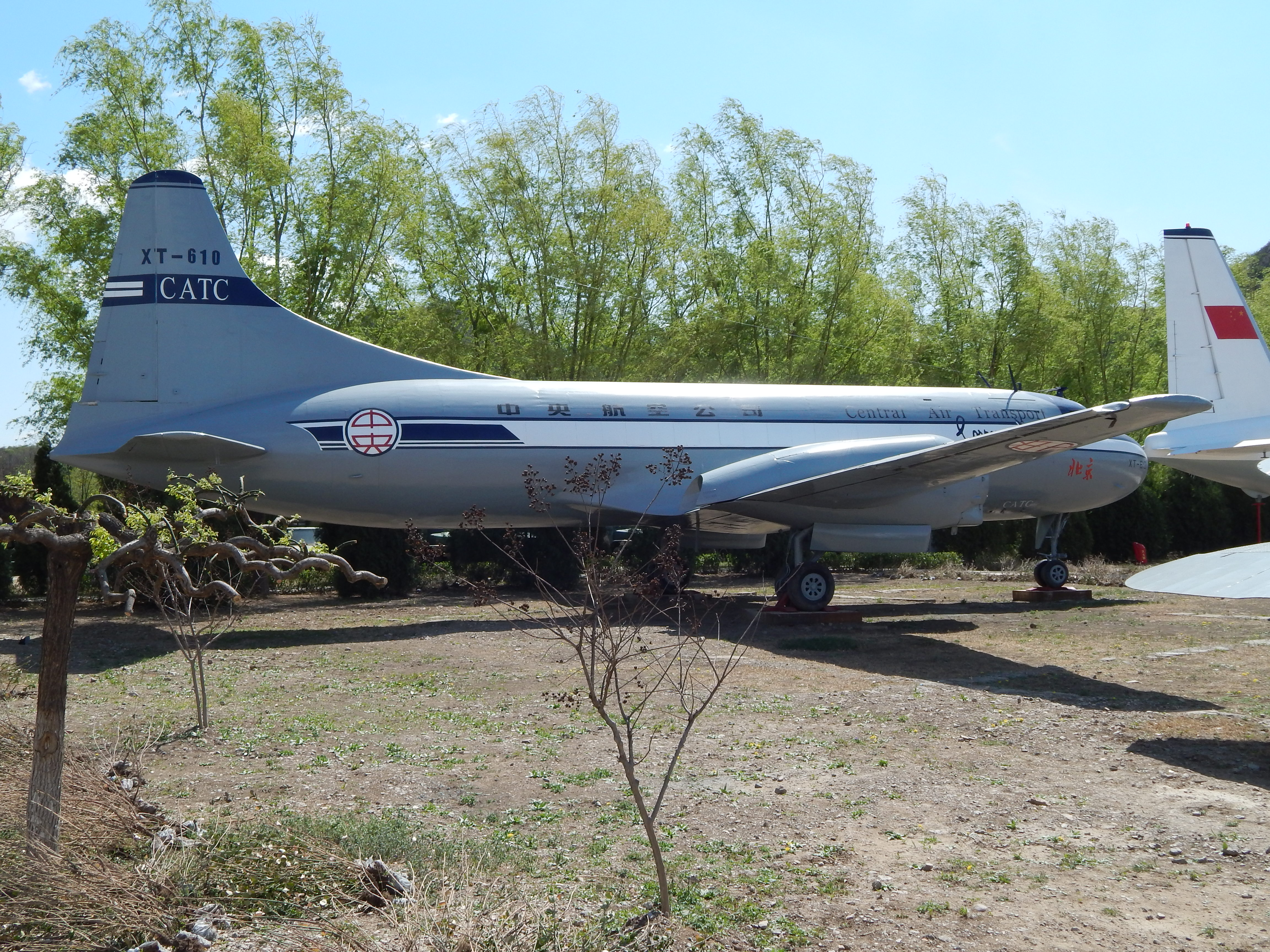 Beautiful and rare example of an early Convair. Note pre-revolutionary markings